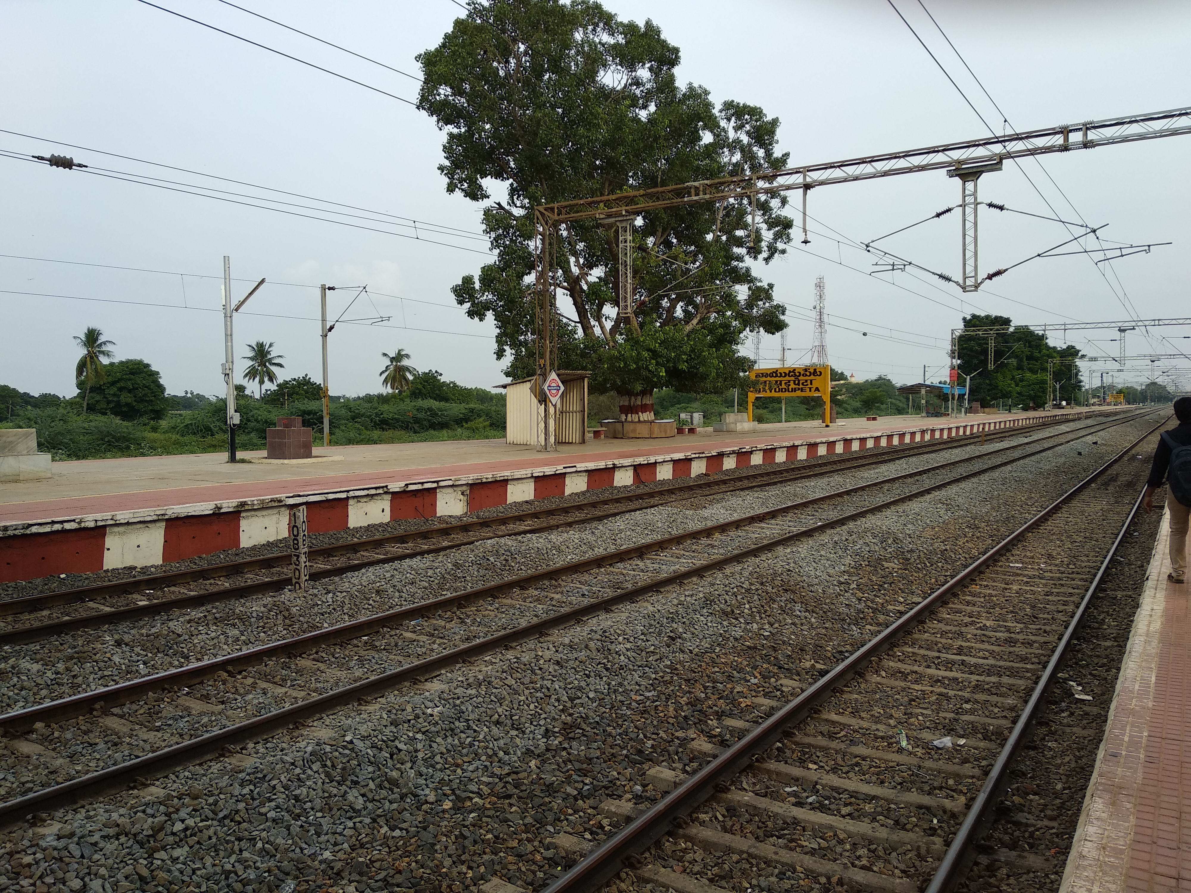 Railway station in Nellore district of Andhra Pradesh, India